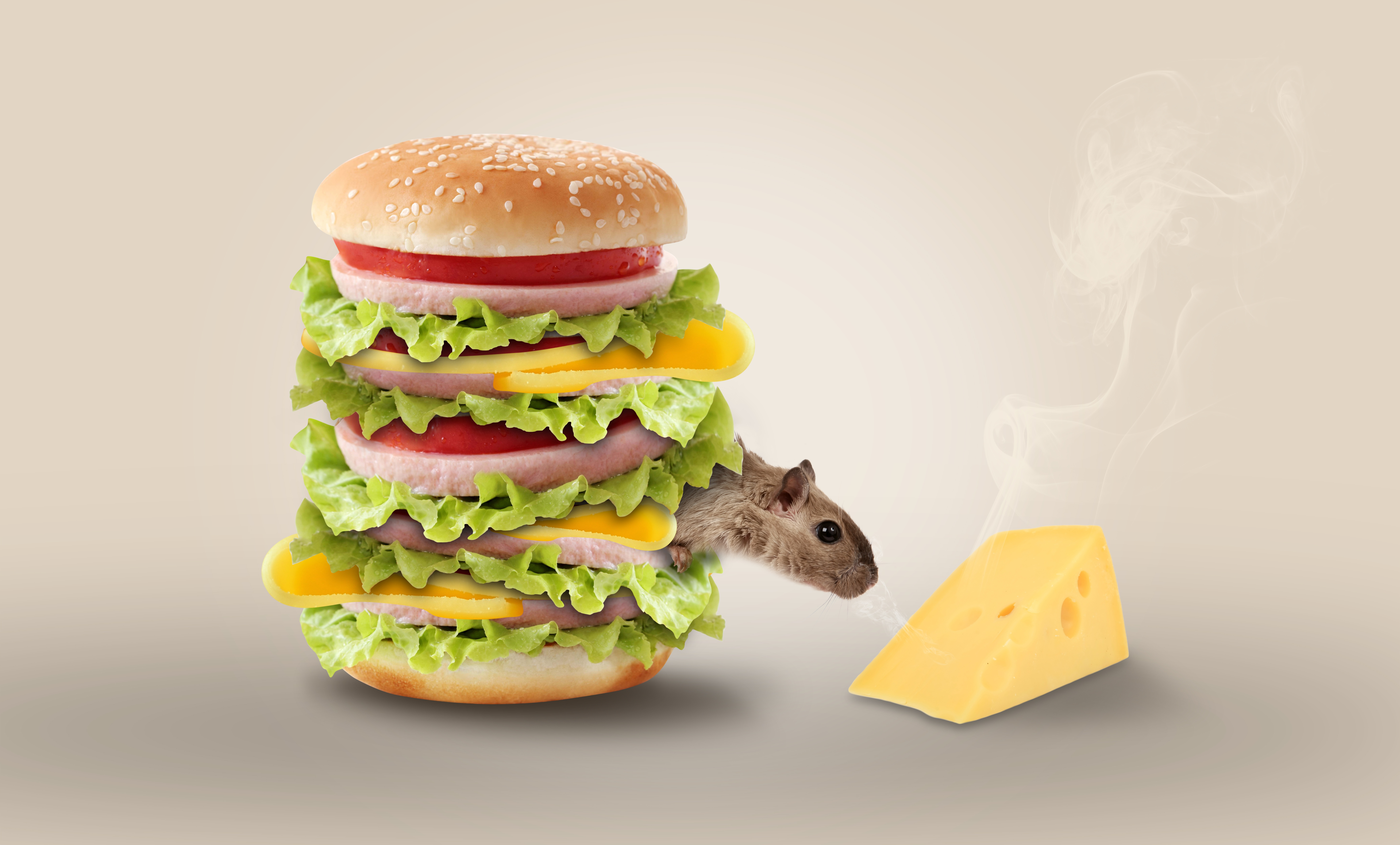 A stacked-up burger with a mouse leaning out of it, sniffing at a smelly piece of cheese.